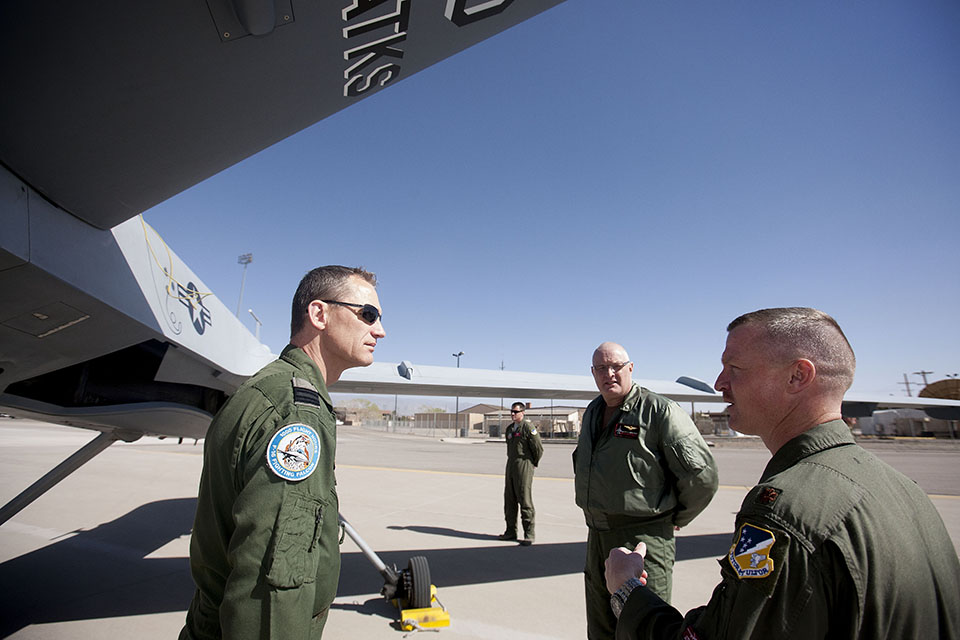 The Director Operations of the RNLAF commodore Dennis Luyt and Commander of the RNLAF luitenant-generaal Sander Schnitger get aquainted with the MQ-9 Reaper during a visit to Holloman AFB in Nieuw Mexico